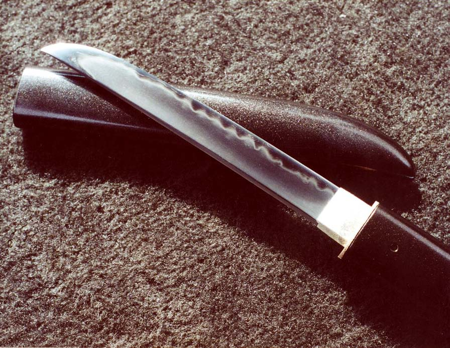 Polish to reveal the heat treatment and layered steel composition. Made 1992